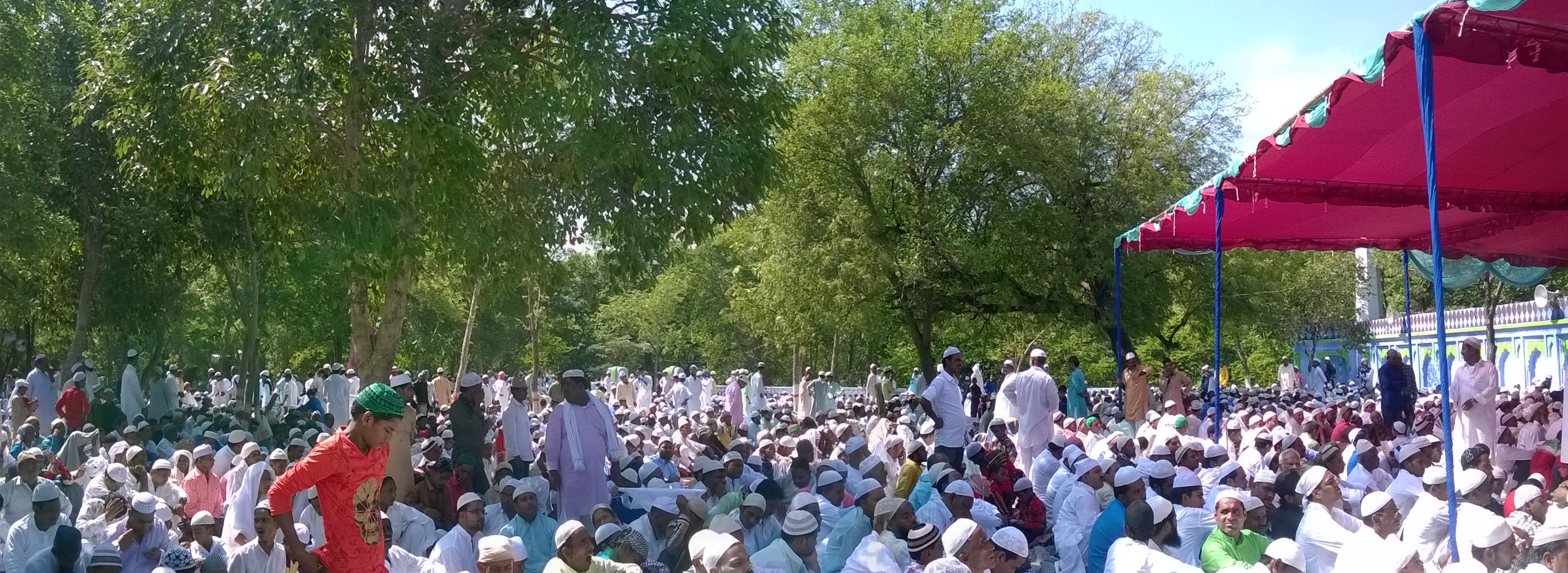 On Eid Day in Eidgah Of Bahraich people offering Namaz